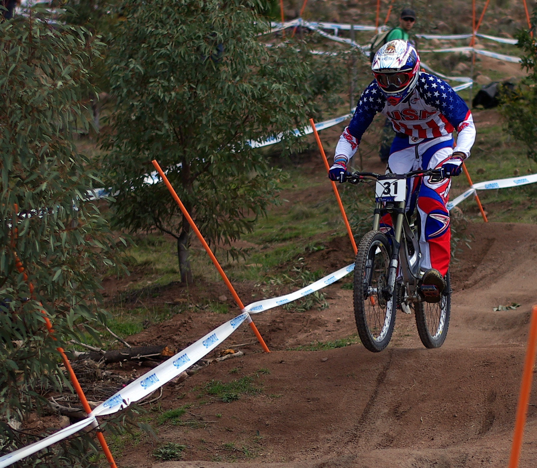 Cross-country mountain biking: Competitors in downhill events at the 2009 UCI Mountain Bike and Trials World Championships held at Mount Stromlo, near Canberra, Australia. Kevin Aiello, USA (Men's juniors)